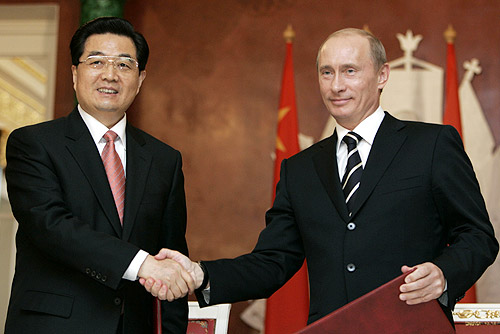 GRAND KREMLIN PALACE, MOSCOW. With President of China Hu Jintao following the signing of the Joint Declaration.